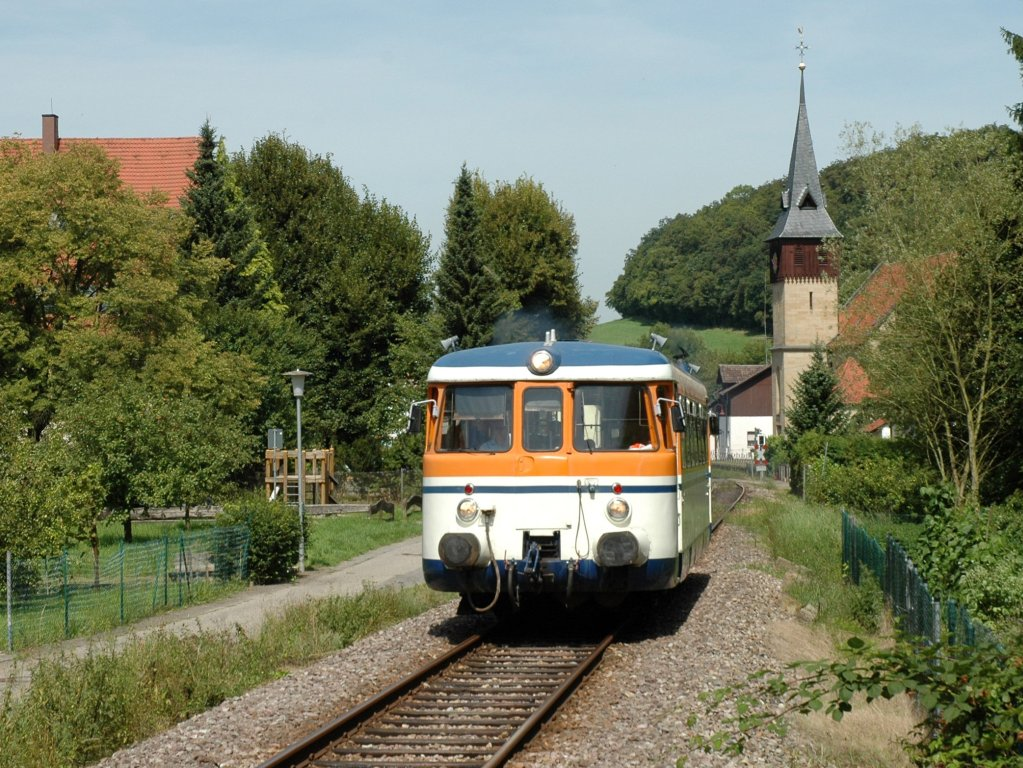 MAN railbus on the Neckarbischofsheim–Hüffenhardt railway hauling through Untergimpern. train number SWE 70773.